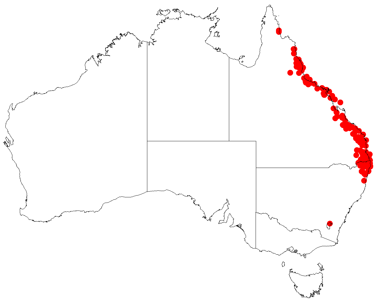 Harpullia pendula occurrence data from Australasian Virtual Herbarium downloaded 2020-05-25 using DOI